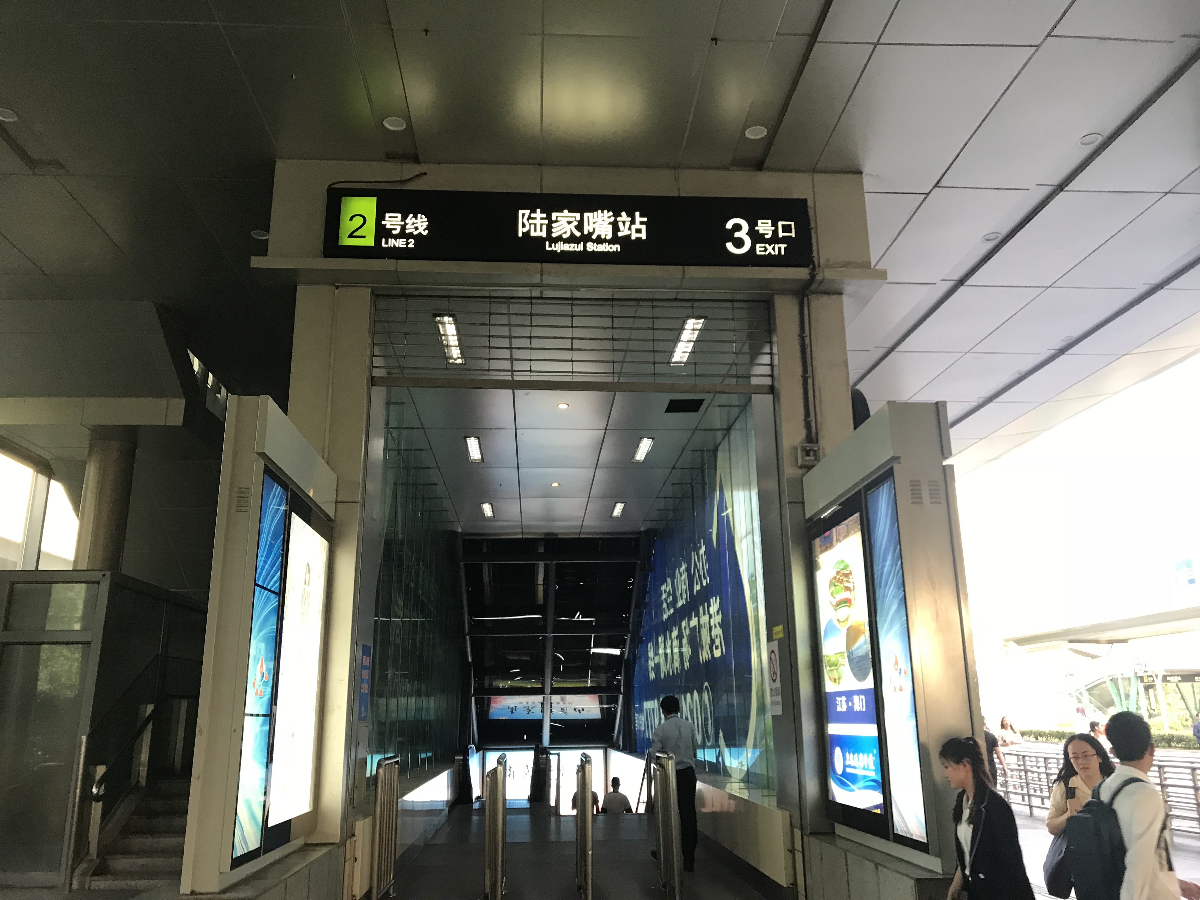 201805 Exit 3 of Lujiazui Station